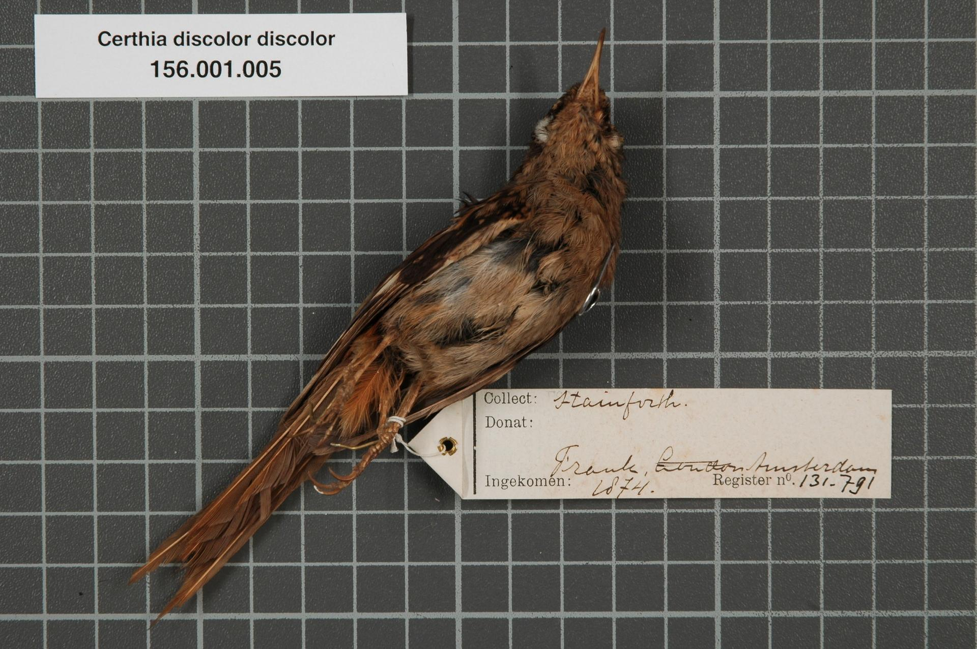 Certhia discolor discolor Blyth, 1845